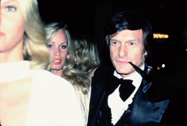 Photo taken at the private party after the premiere of the movie FIST, 1978 - Permission granted to copy, publish or post but please credit "photo by Alan Light" if you can